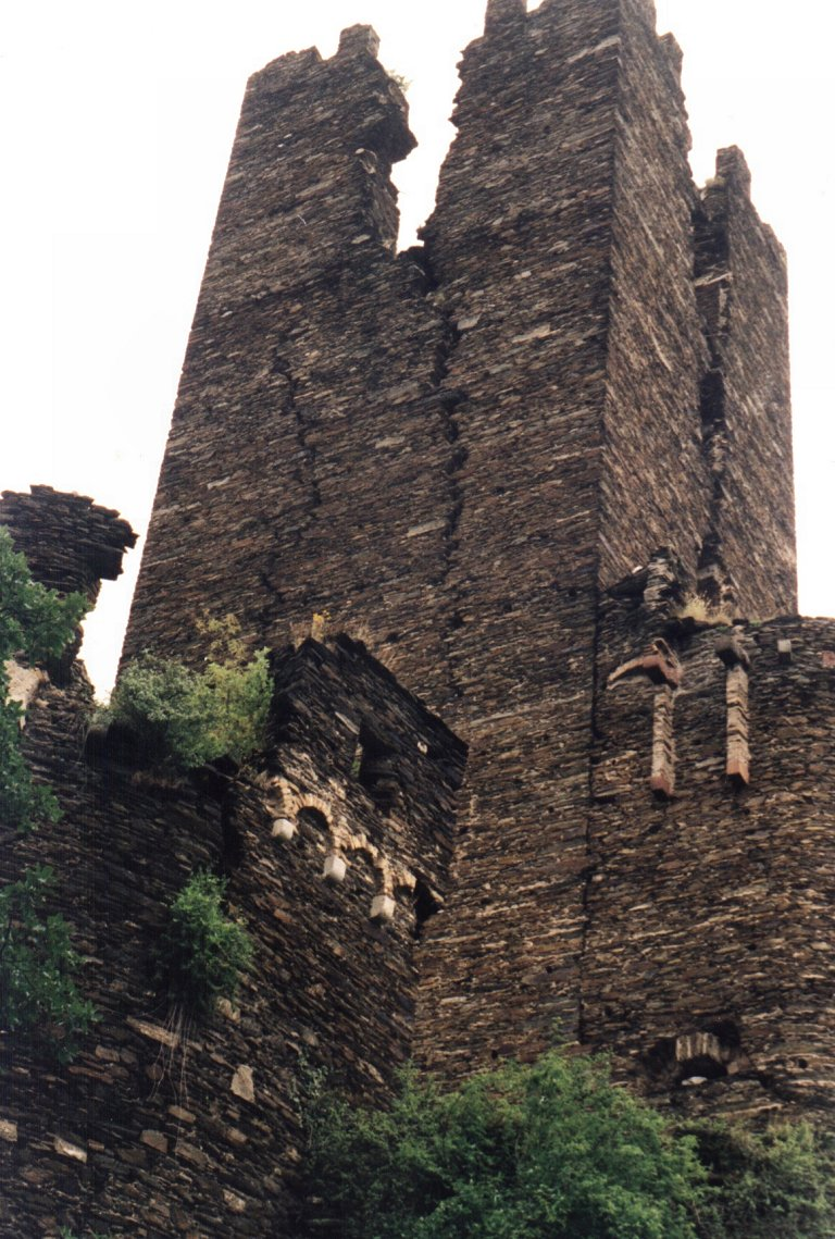 Keep of the Sauerburg